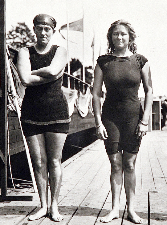 Olympic Games,Stockholm, Swimming, Women's Freestyle 100 Metres, Australian gold medal winner Fanny Durack (left) stands with Australian silver medallist W, Wylie (centre)